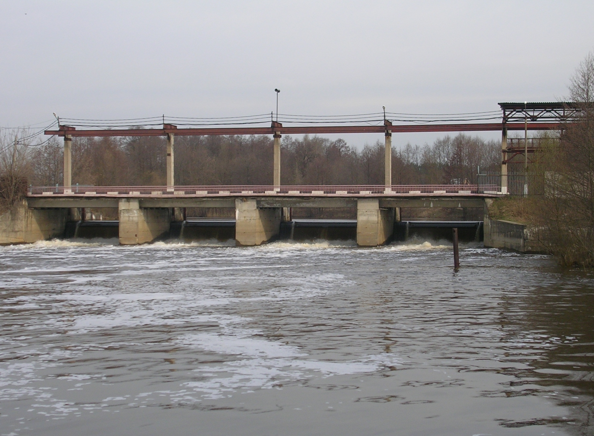 The Dam on Sherna river in Karavaevo